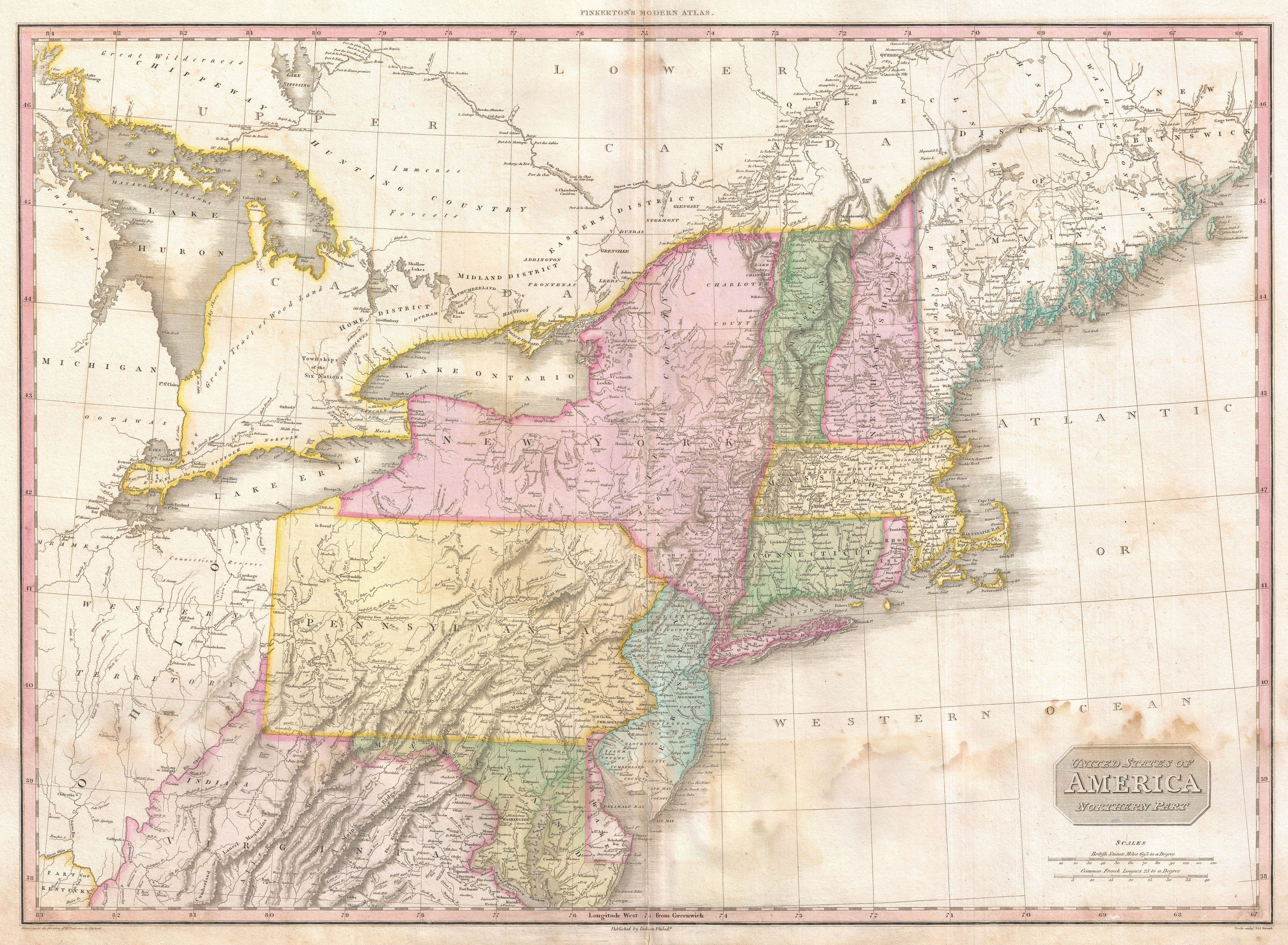 John Pinkerton's highly decorative and important map of the northern parts of the United States, published 1818. Covers from Lake Huron eastward as far as New Brunswick and southwards as far as the Chesapeake Bay. Includes the states of New York, New Jersey, Pennsylvania, Connecticut, Rhode Island, Vermont, New Hampshire, Maryland, Delaware and Virginia. Also includes the districts of Maine, parts of the Western Territory, including Michigan and Ohio, and adjacent portions of Canada. Pinkerton's map is full of interesting detail from the American Indian lands in the western portions of the map, to notations on river navigation, to the configuration of the early states. Notes Connecticut's Western reserve in what is today Ohio. This territory was a legacy of Connecticut's original coast to coast charter and we settled in the early 19th century by New England emigrants. Drawn by L. Herbert and engraved by Samuel Neele under the direction of John Pinkerton. This map comes from the scarce American edition of Pinkerton’s Modern Atlas, published by Thomas Dobson & Co. of Philadelphia in 1818.